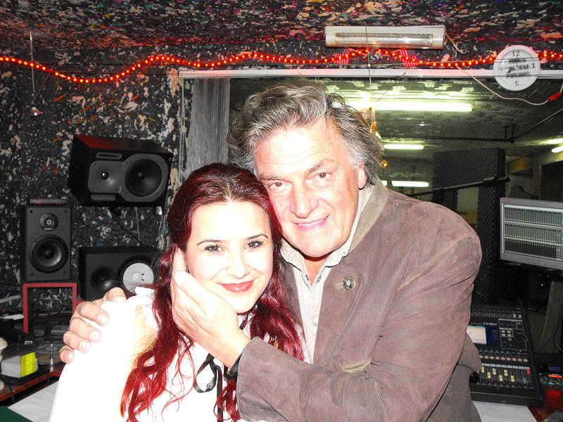 Ramona Fabian & cu Maetrul Florin Piersic